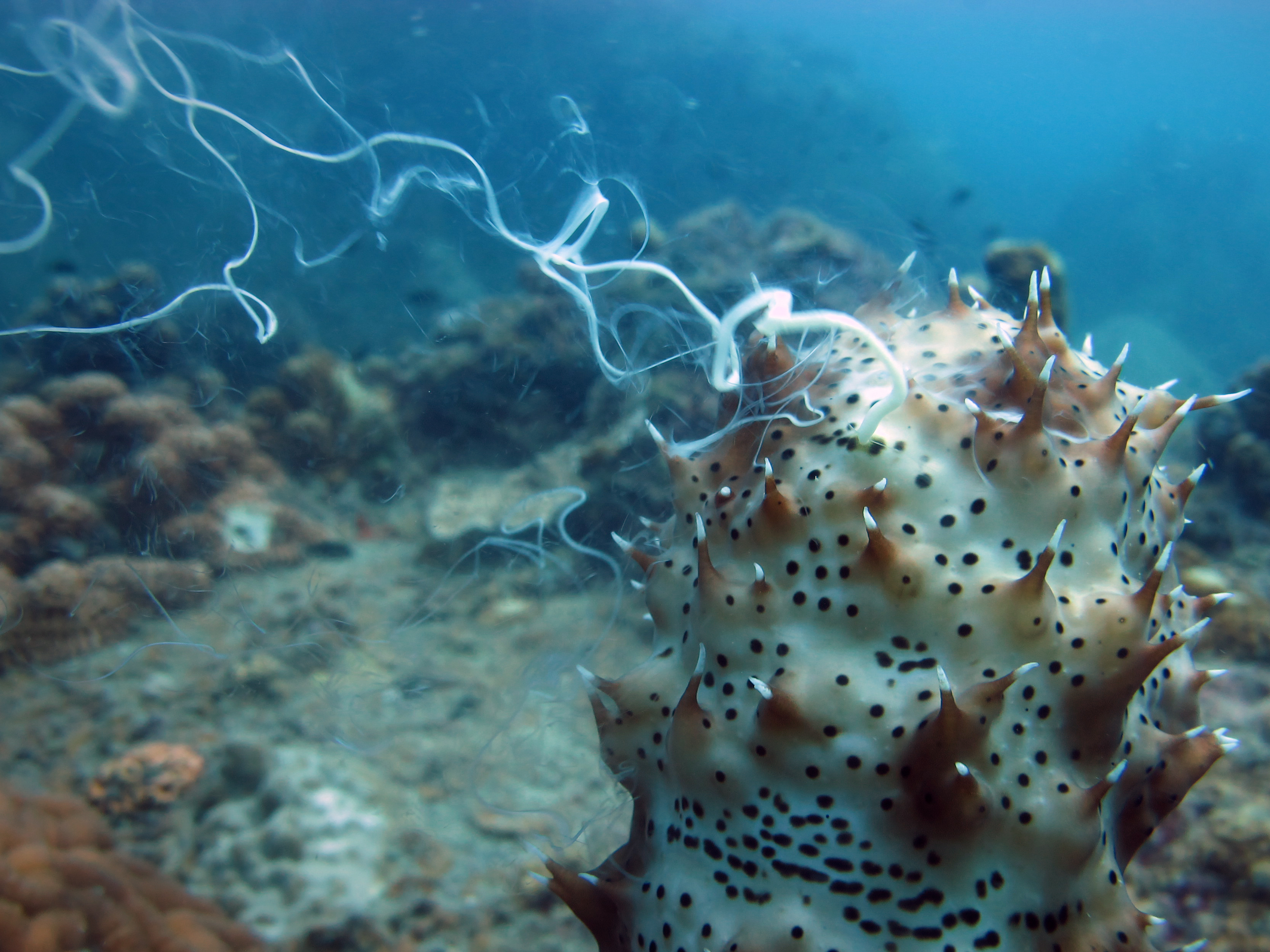 Sperm release by the sea cucumber Pearsonothuria graeffei during a mass spawning event on the island of Koh Tao, Thailand.